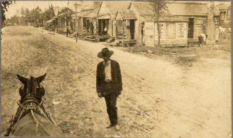 View of street in Monck's Corner, South Carolina, 1904. Courtesy of the Ulrich B. Phillips Collection, Yale University Manuscripts and Archives Digital Images Database.